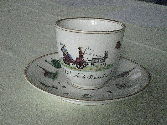 The children´s cup was painted by Luise Neumann (1837 - 1934). Normaly she painted portraits from scientists of the Albertina Koenigsberg, todays Kaliningrad/ Russia